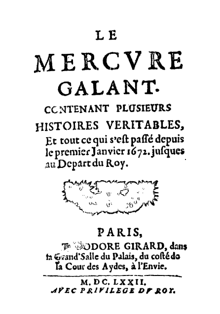 Title Page of the 1672 edition of France's Mercure Galant